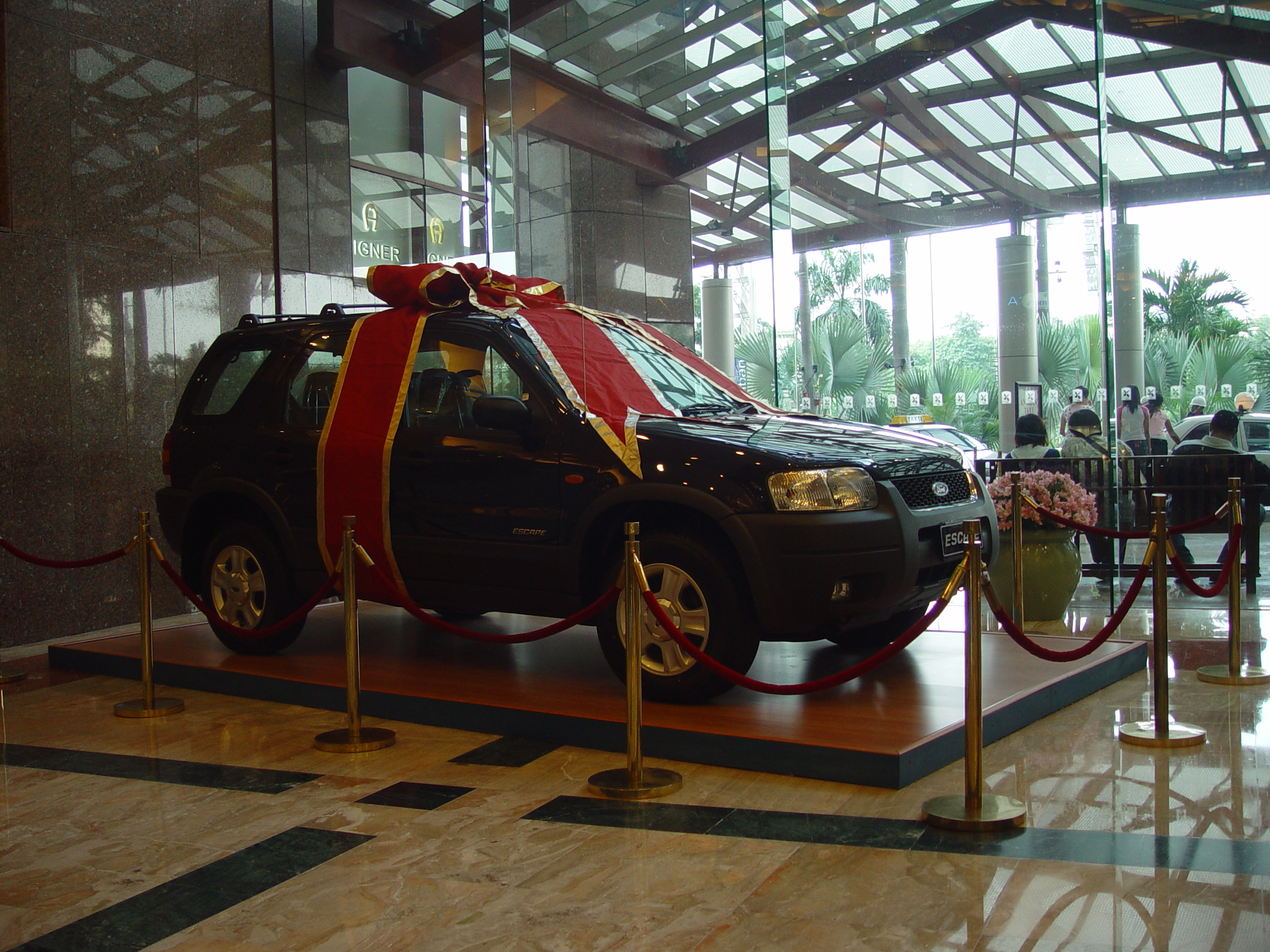 Mall cultural in Jakarta, Indonesia.